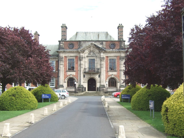 Northallerton - North Yorkshire County Hall